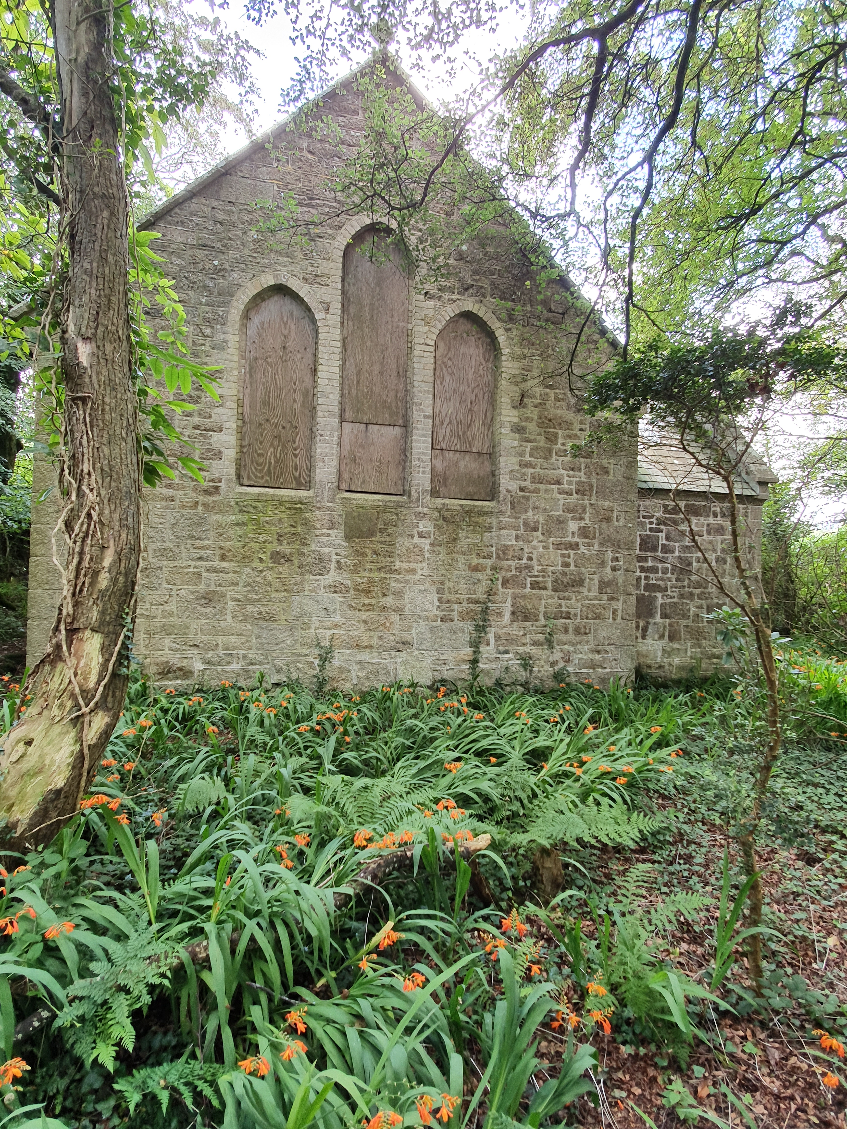 Mission Church of All Saints, Trythall in Madron parish. Opened in 1885 and closed in 1957. Designed by Piers St Aubyn.